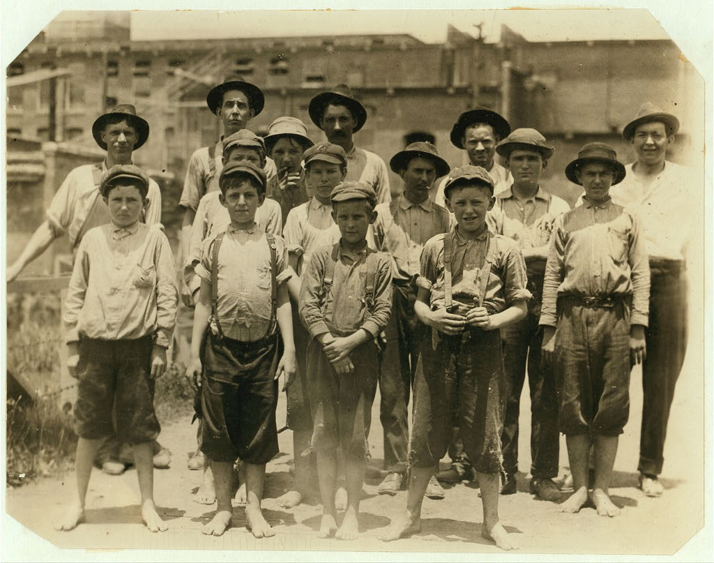 Group of boys working in the Williamston Mill. Williamston, S.C. Smallest boy is Frank Duran #1 Front Street. Location: Williamston, South Carolina.